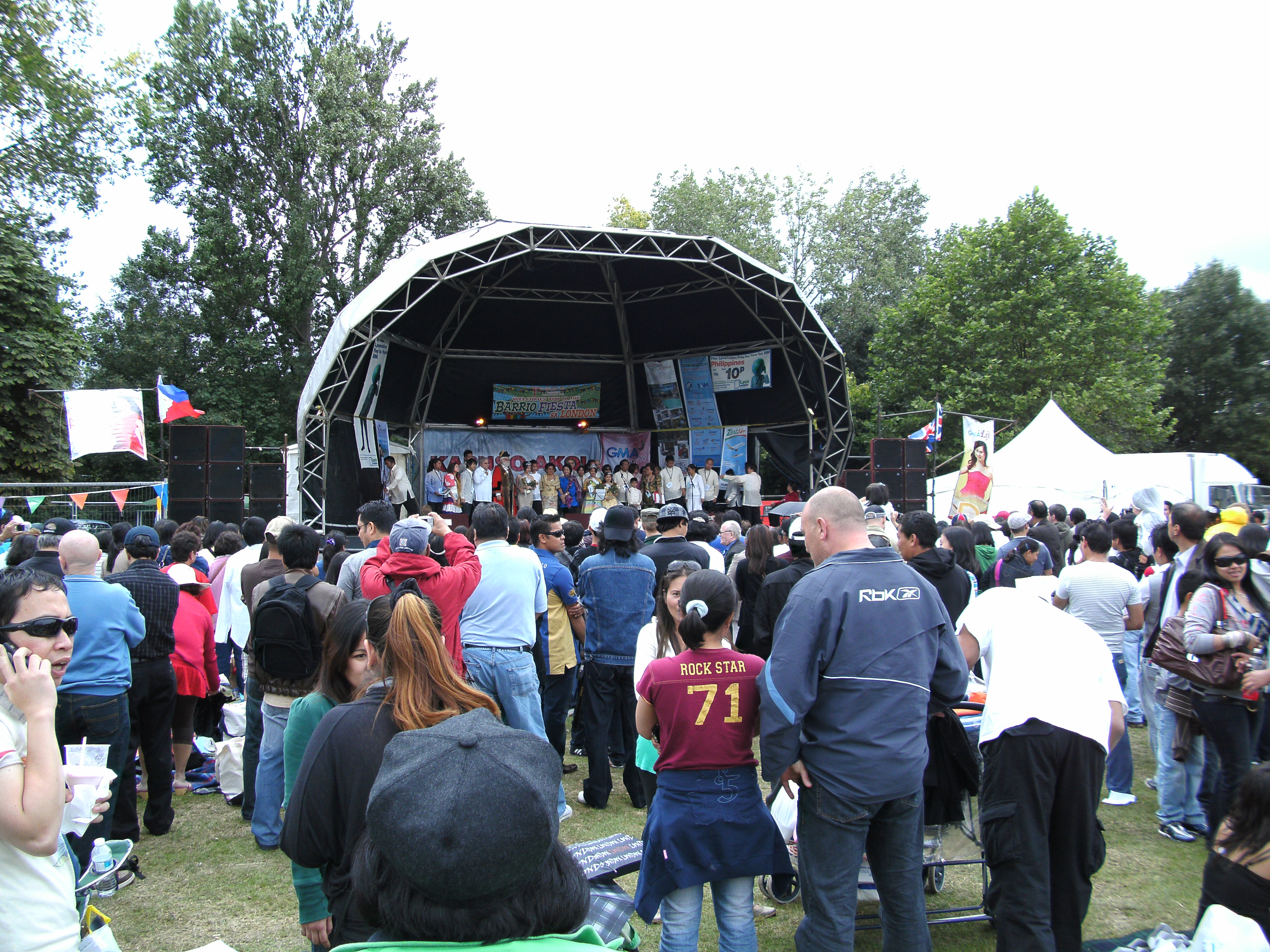 Stage of the 2009 "Barrio Fiesta sa London", awards are being handed out to Little Miss, and Miss Teen Phillipines UK.